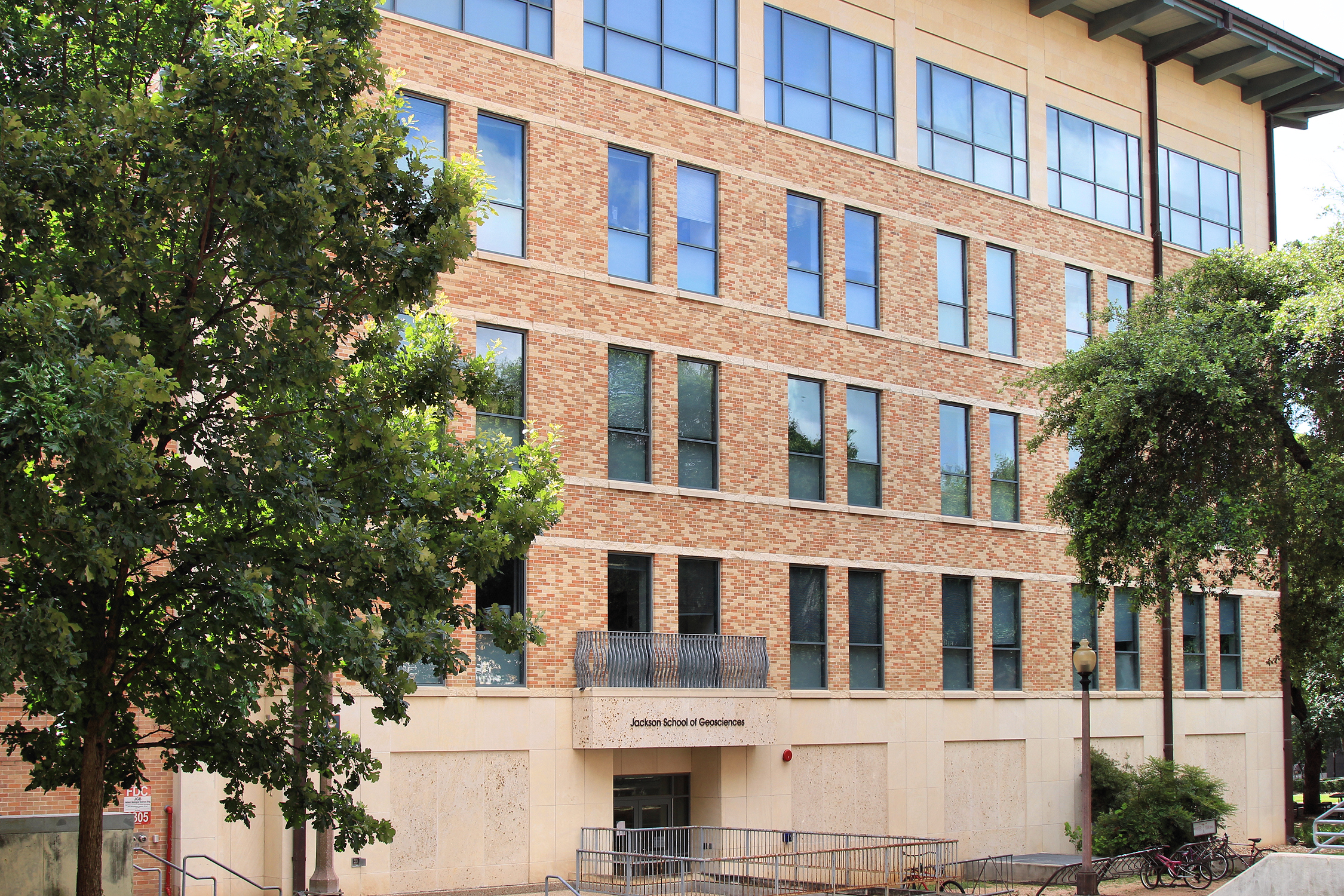 The Jackson School of Geosciences building at the University of Texas at Austin.